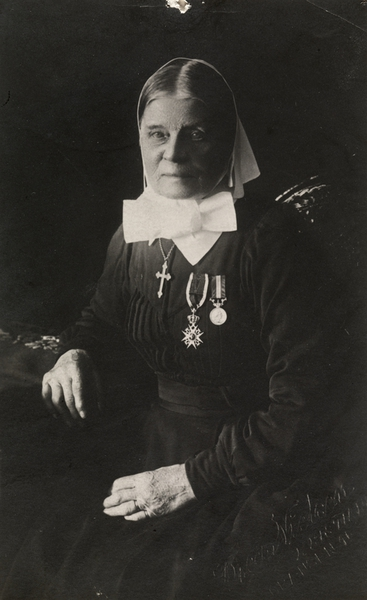 Cathinka Guldberg (1840–1919), Norwegian nurse. Received Order of St Olav in 1915. Photo in collection Byhistorisk samling, Oslo Museum. DigitaltMuseum.